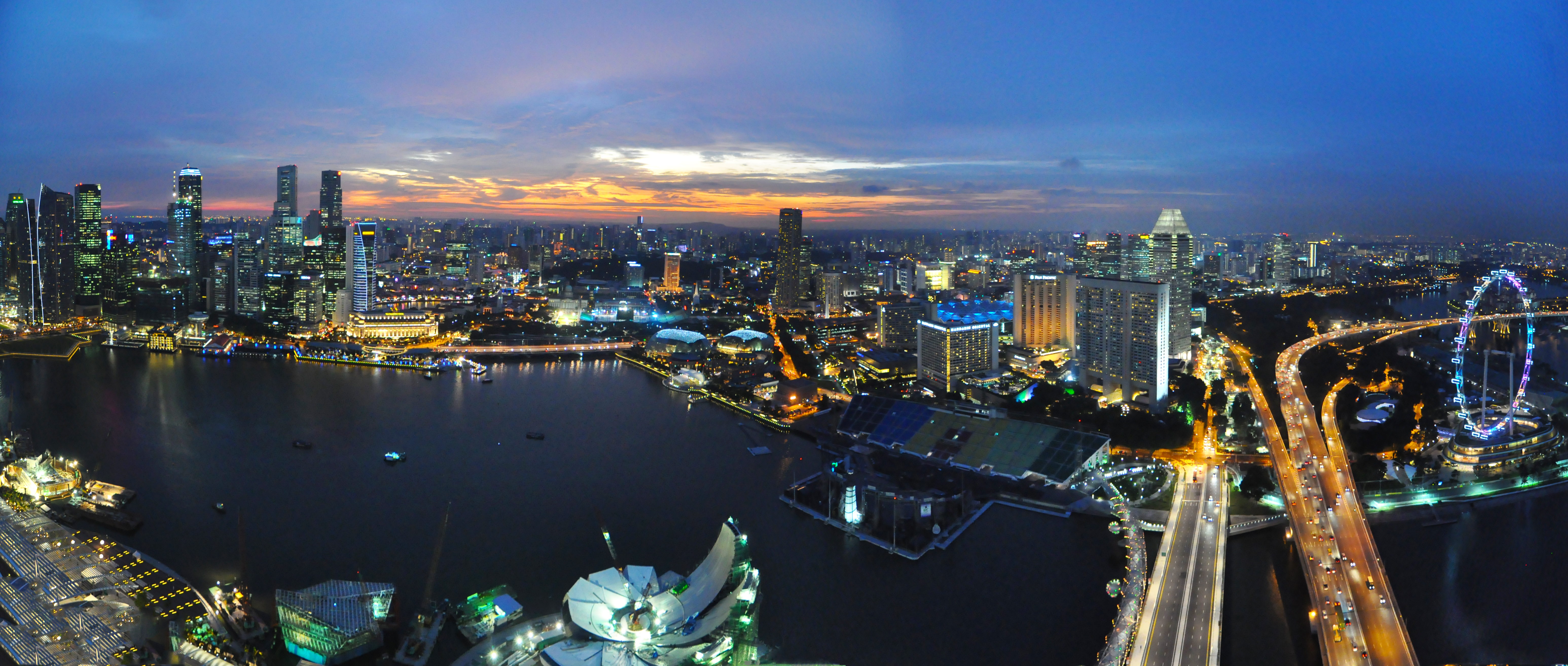 Singapore city night skyline from Marina Bay Sands panorama 2010